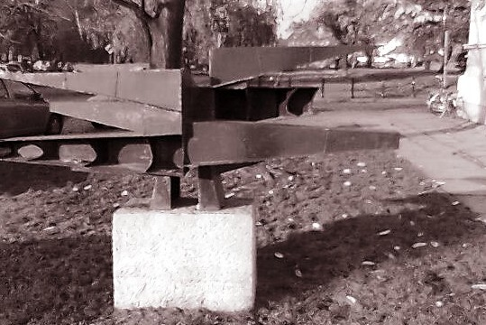 Arms, author: Jerzy Boron, polish sculptor (1924-1986) Picture: Jacek Boron